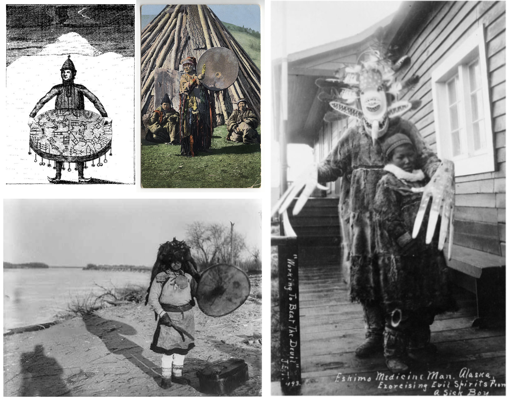 Shamanism is a very general (sometimes even debated) concept, comprising mediator-role figures of several different cultures, with great diversity. That is why this image is a tableau. It is created to be a lead image of Wikipedia's Shamanism article.